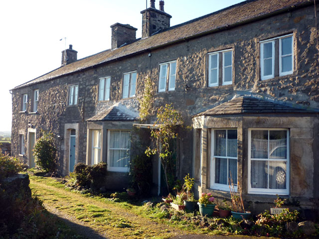 Cottages, Cowan Bridge